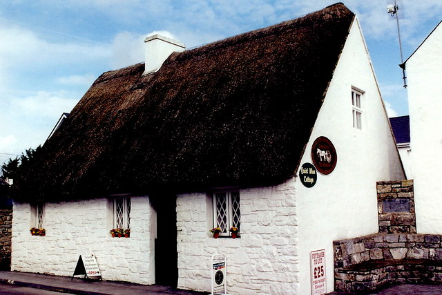 Cong - "Quiet Man" Cottage Museum Per the cottage shown is the Quiet Man Cottage Museum in Cong. The ground floor and furnishings were designed as an exact replica of the original White O'Morn cottage interior seen in the movie. This museum sells "Quiet Man" souvenirs and provides "Quiet Man tours. Per All of the interiors shown in the movie were filmed in Hollyood and all exterior shots were done in Ireland. The original White O'Morn cottage is located a bit south of Maum and just west of R336 off a muddy road along the Failmore River. It is in a state of ruins. Paddy McCormick of Northern Ireland has made attempts to acquire the property and restore it as a tribute to the film to no avail.